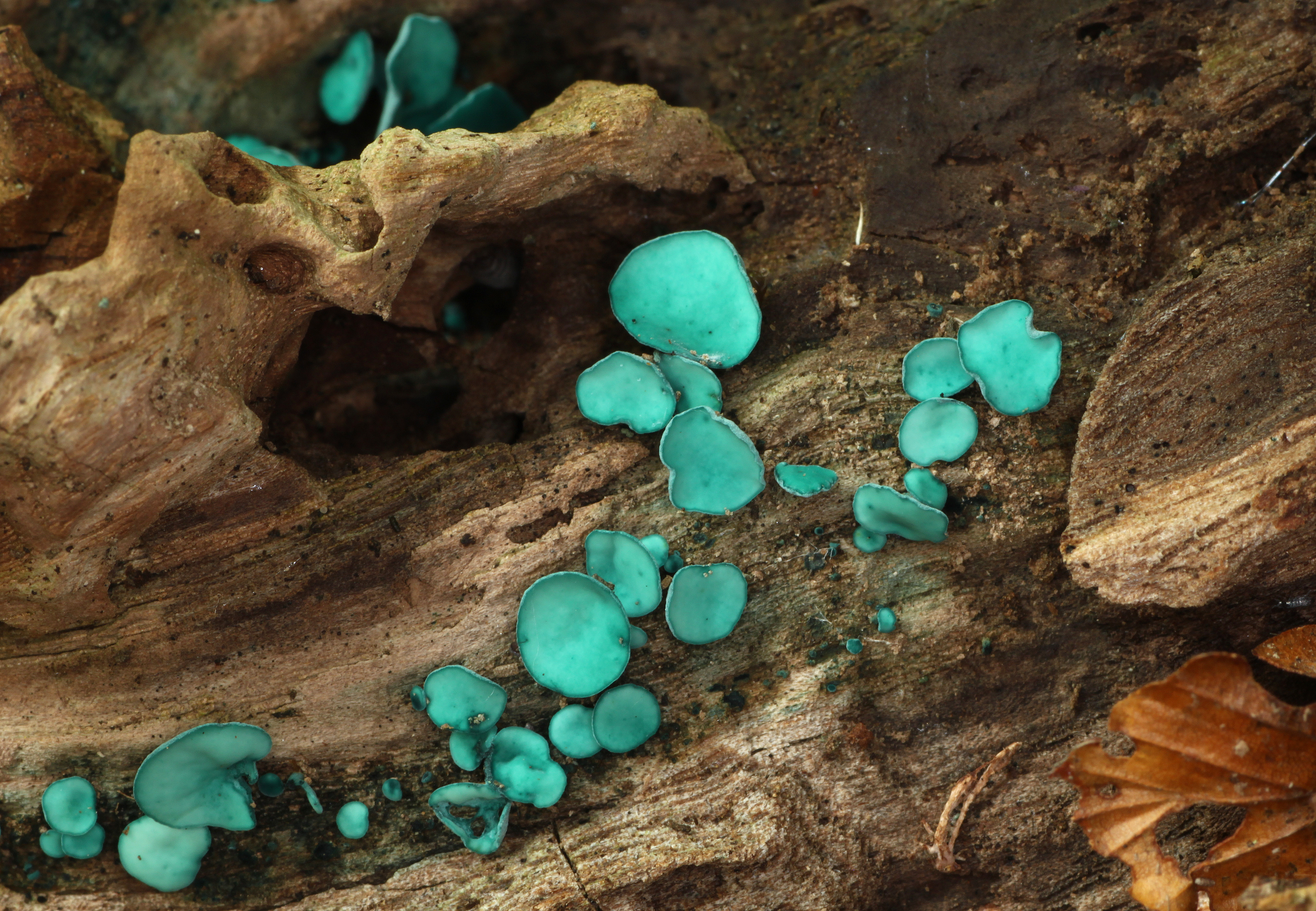 Green Elfcup or Green Wood Cup Chlorociboria sp., Family: Heloteacae, Location: Germany, Ulm, Wiblingen. Possible species Chlorociboria aeruginascens or Chlorociboria aeruginosa. Personally I think C. aeruginascens.